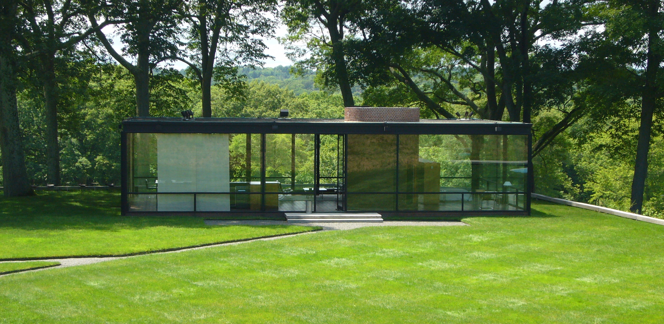 Glass House by Philip Johnson (exterior) in New Canaan, CT, USA